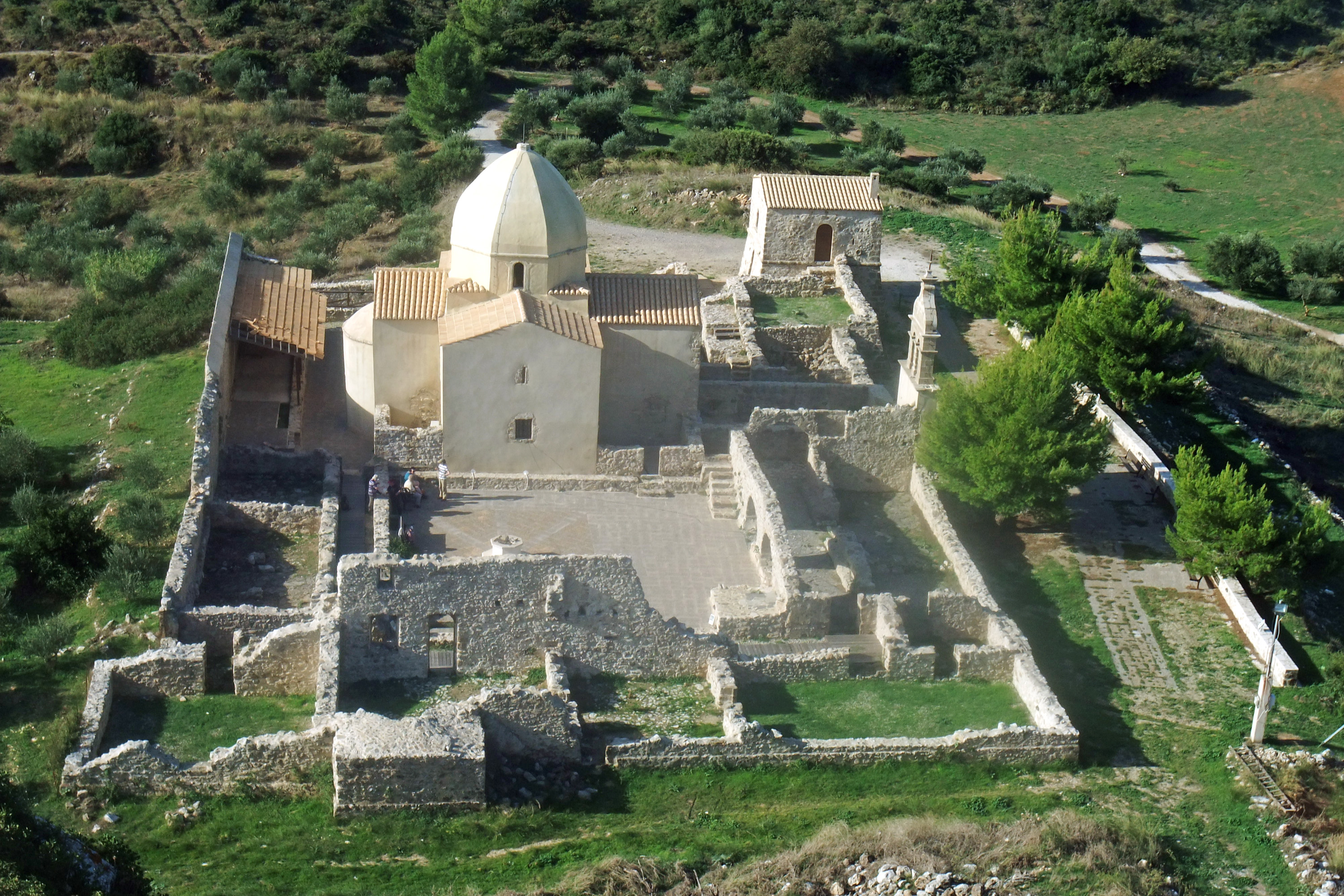 Church and monastery ruins Panagía Skopiótissa below the summit of Mount Skopós, in Zakynthos, Greek Ionian Islands